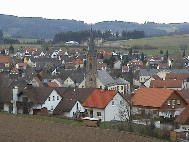 View to Gefrees